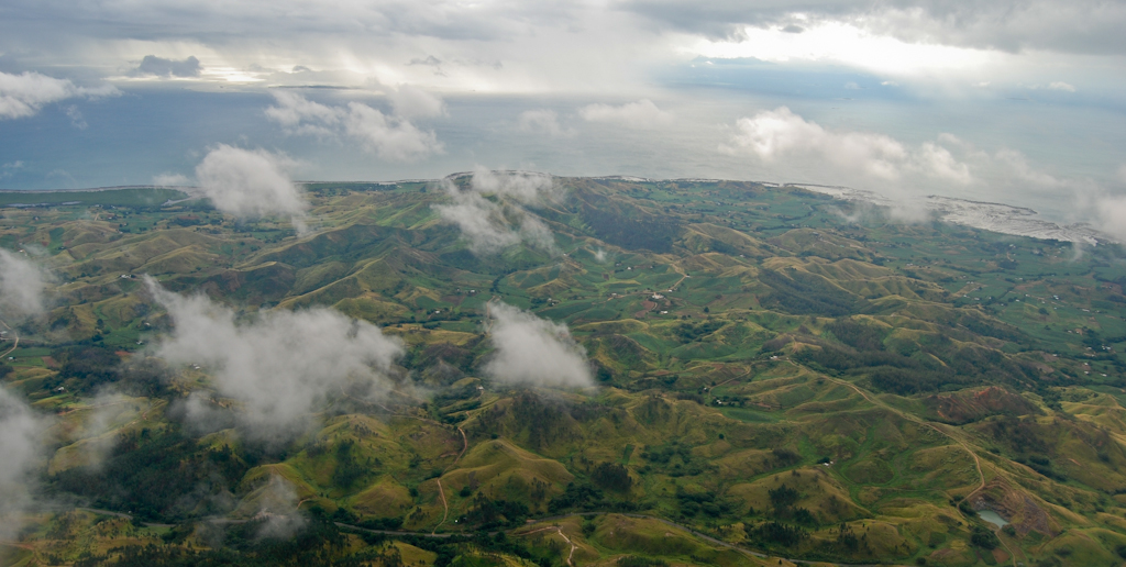 A few more of my cropped photographs from the plane landing in Nadi, Fiji. I think I broke the rule about using electronic devices when landing... oops.